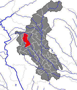 This map shows the area of the Gemeinde (municipality) Hohenau an der Raab in the Bezirk (district) Weiz, Styria, Austria.